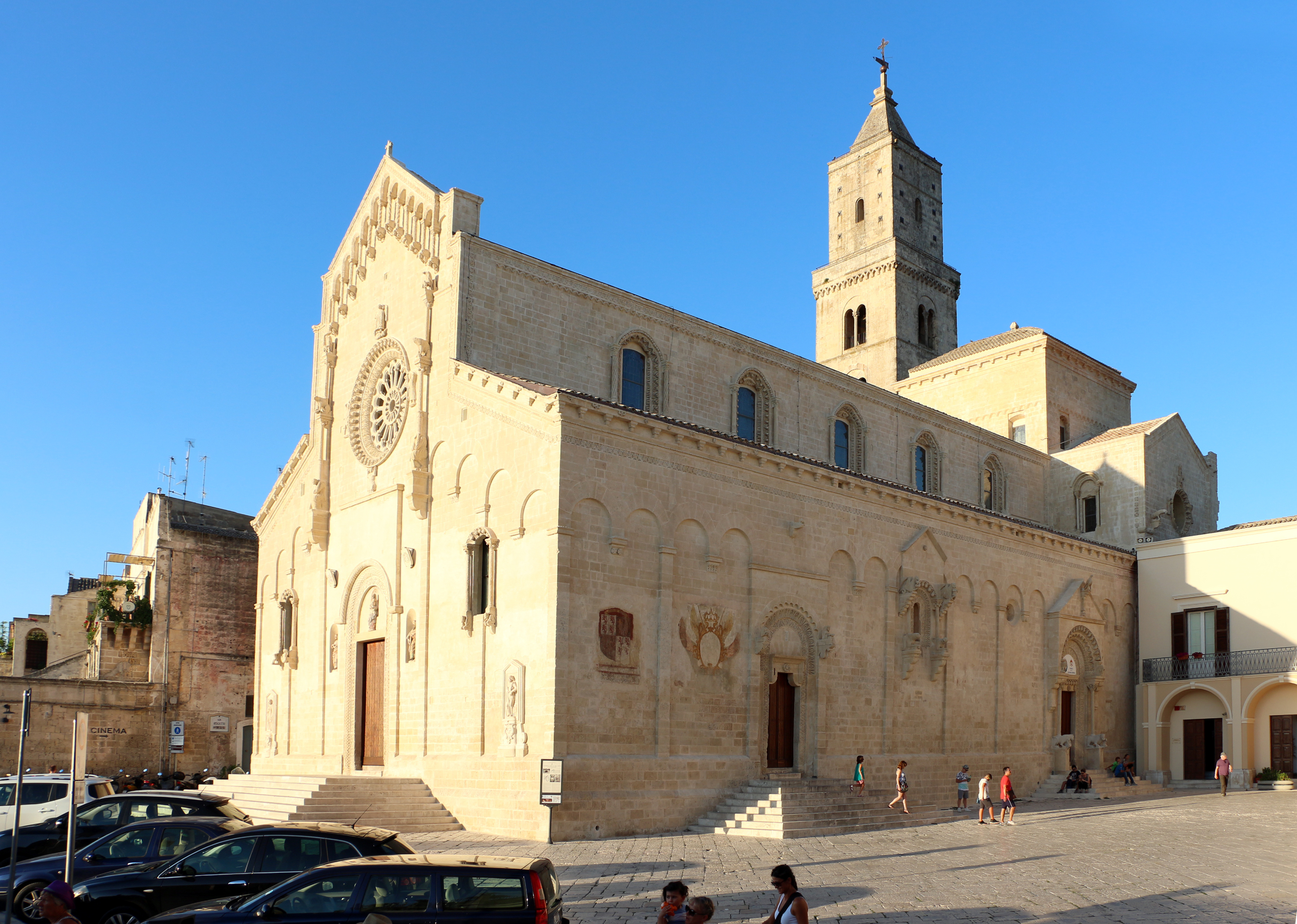 Cathedral (Matera)